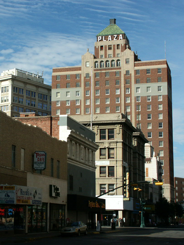 The Plaza Hotel El Paso — in El Paso, Texas. The 1930 Art Deco building was designed by the architectural firm of Trost & Trost.